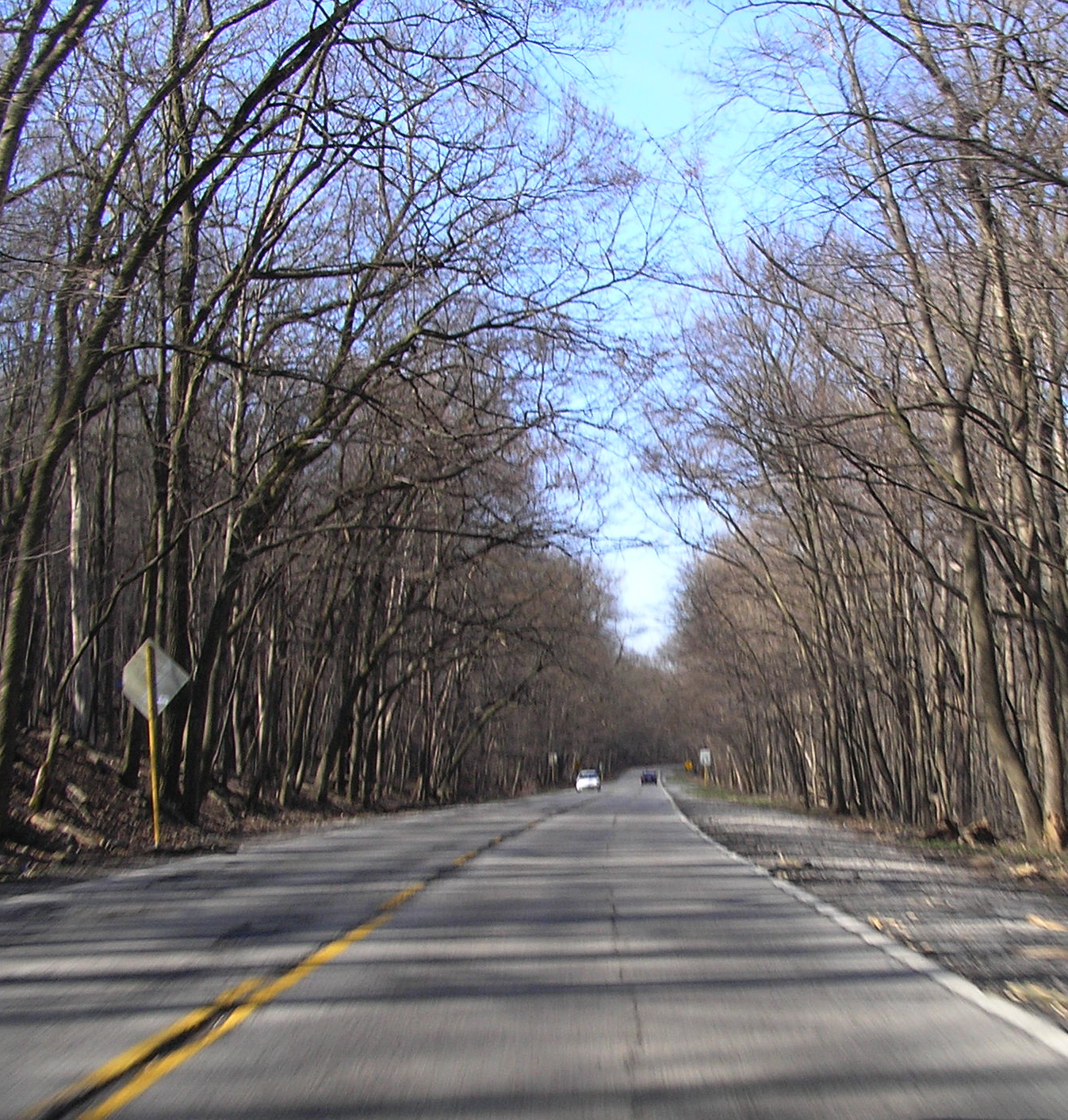 Illinois 171 south of Summit, near the Des Plaines River and Illinois Ship and Sanitary Canal.